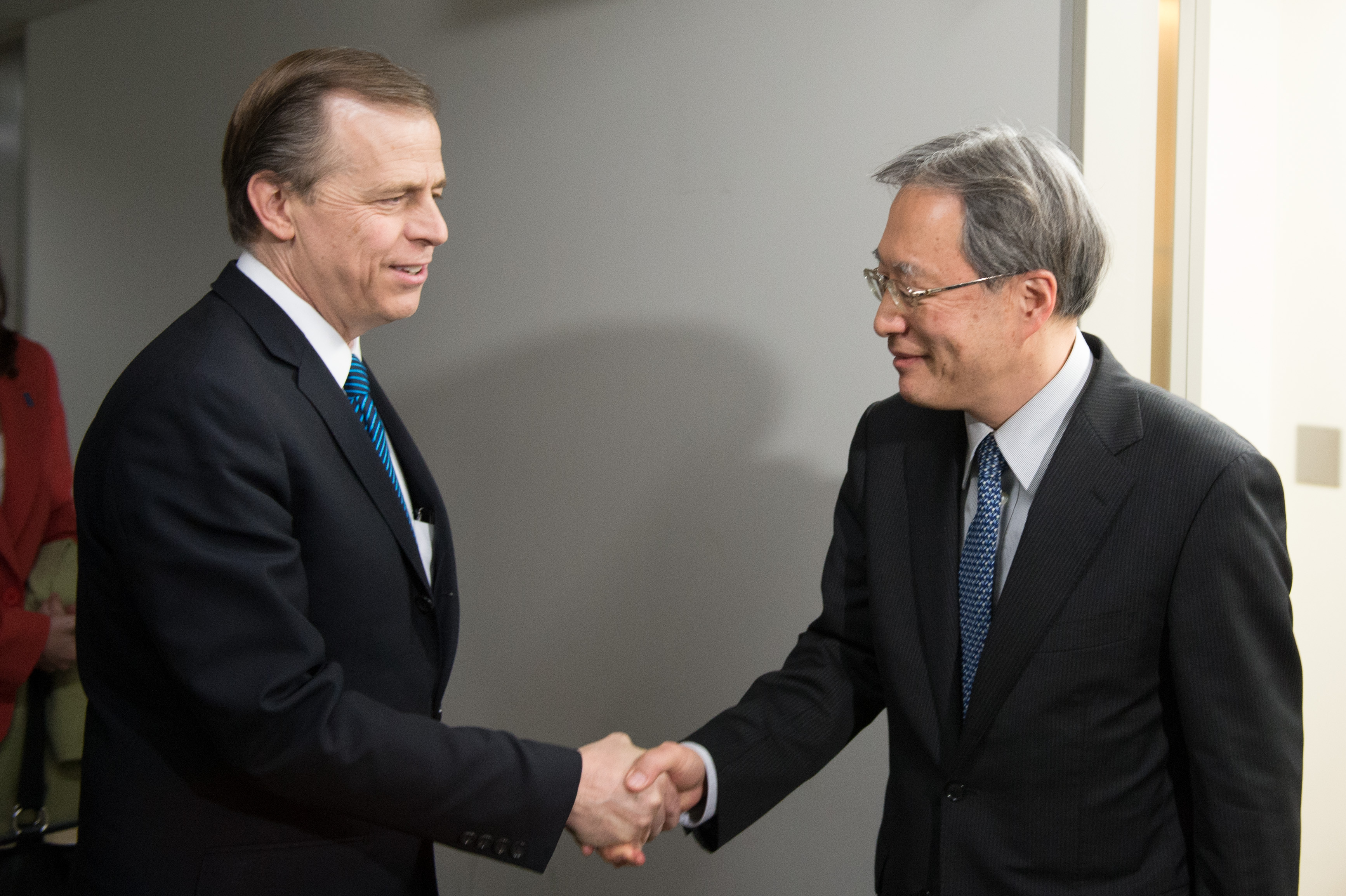 Glyn Davies, Special Representative for North Korea Policy, met Jun'ichi Ihara, Director-General of the Asian and Oceanian Affairs Bureau, Ministry of Foreign Affairs, at the Ministry of Foreign Affairs Main Building in Chiyoda Ward, Tōkyō Metropolis on January 30, 2014.